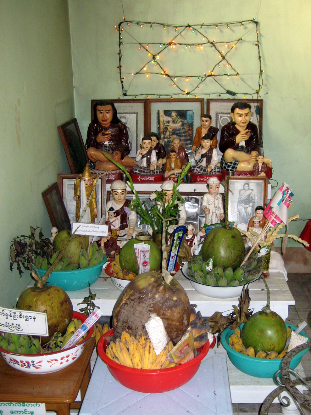 Weizzas (wizards) shrine at a pagoda in Taunggyi